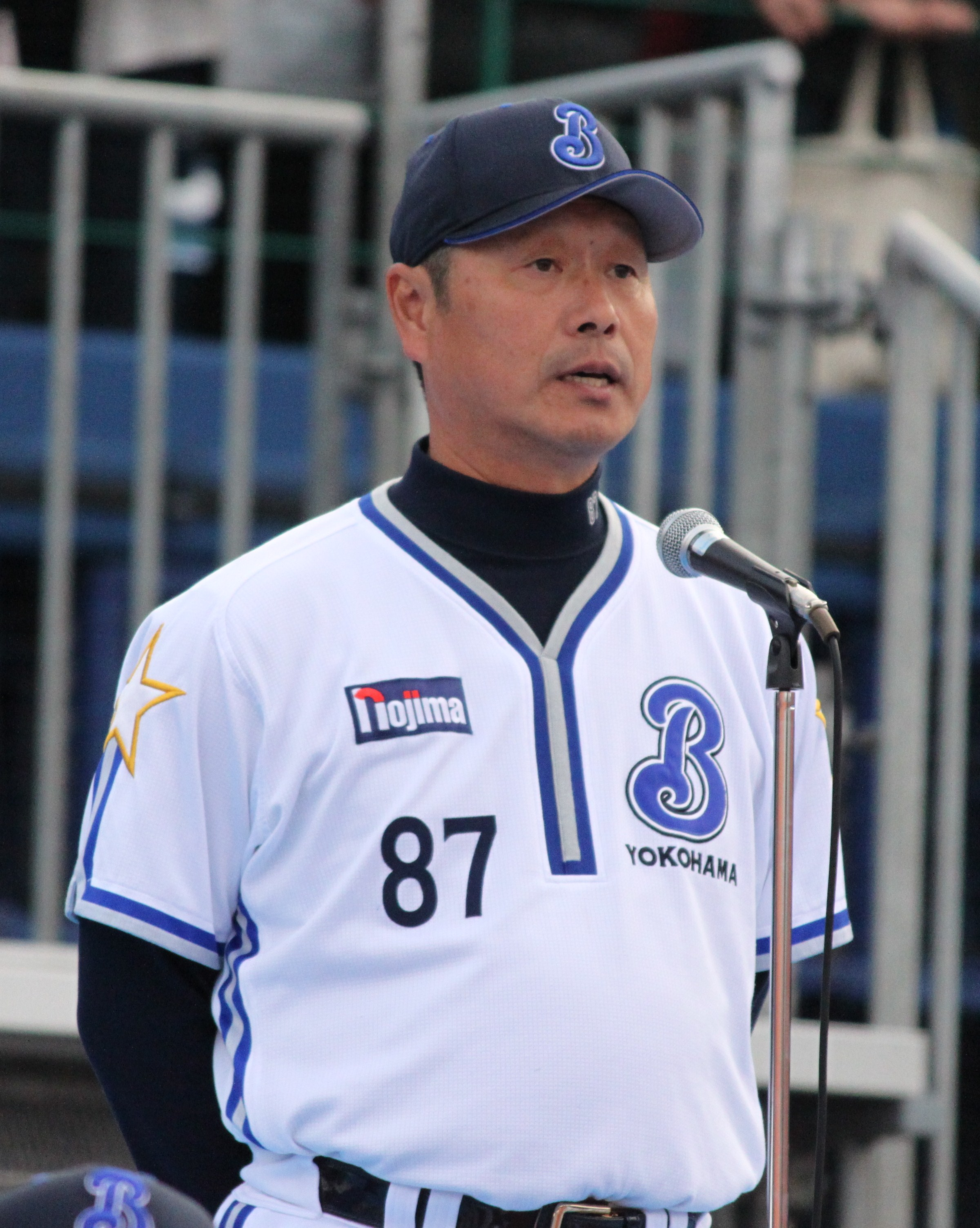 Takao Obana, manager of the Yokohama BayStars, at Yokohama Stadium.